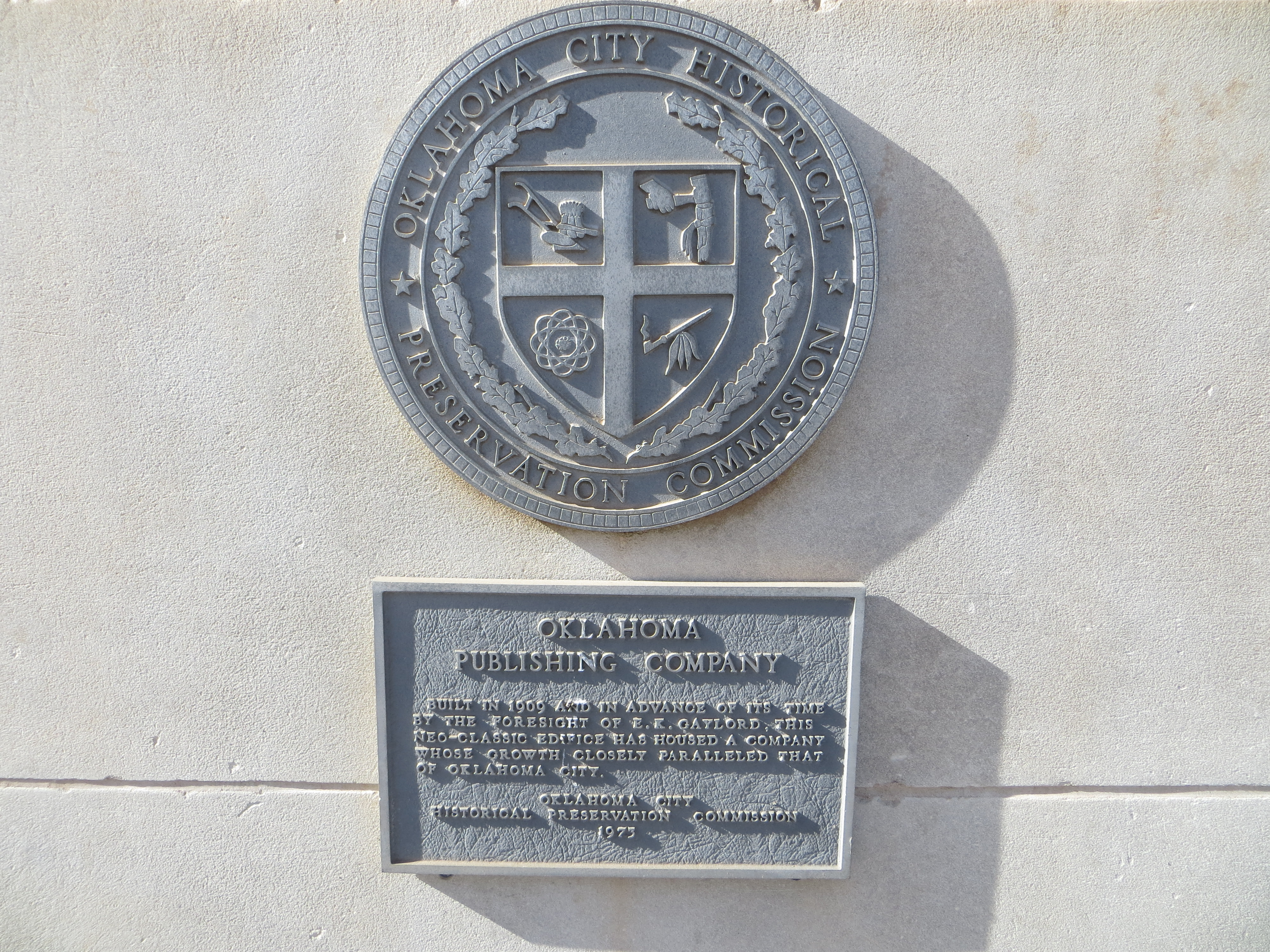 Oklahoma Publishing Company building historical plaque, 500 N. Broadway, Oklahoma City, Oklahoma, USA